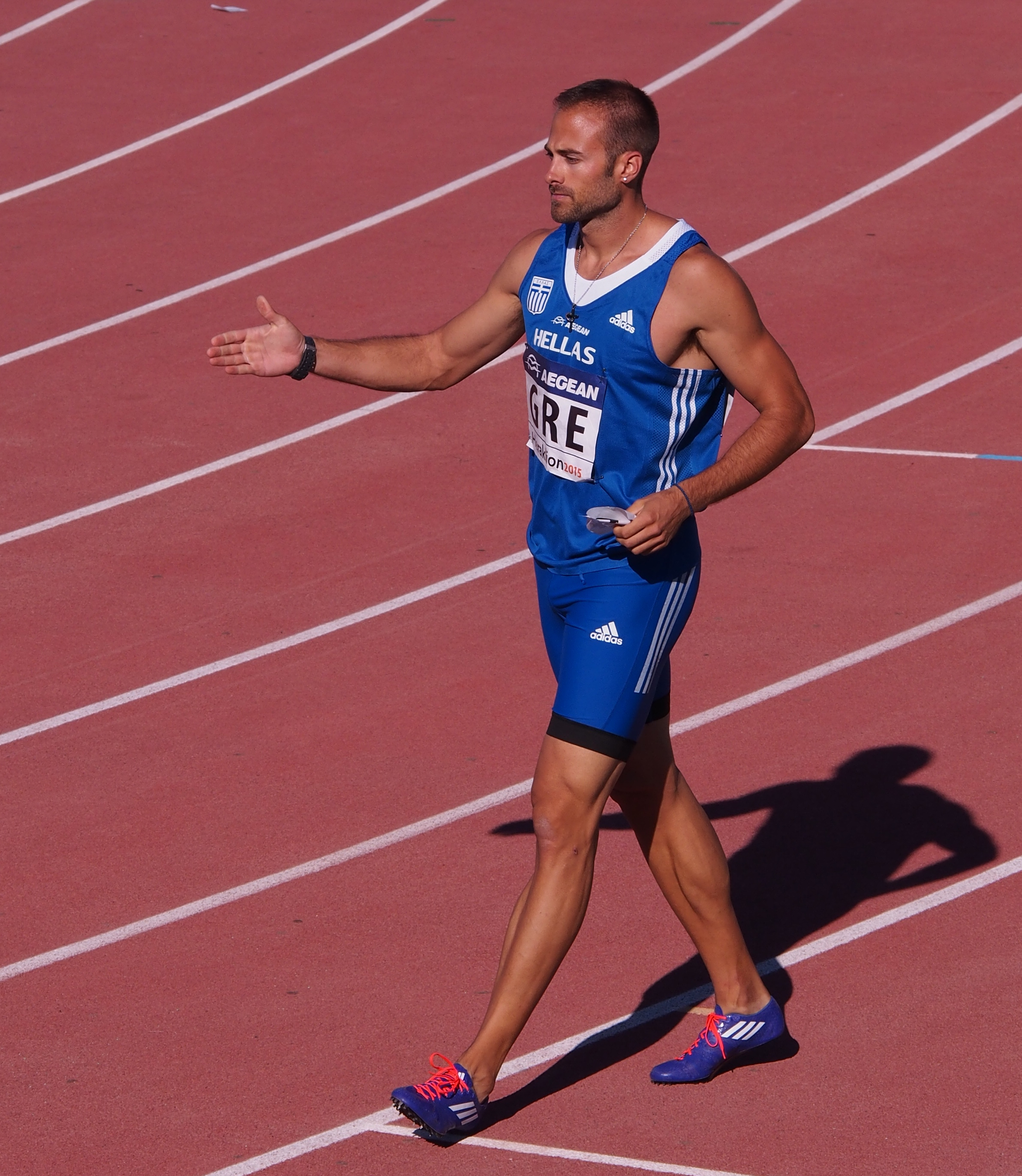 Likourgos Tsakonas (winner) going to shake hands with Yazaldes Nascimento, after the end of the 100 m race at 2015 European Team Championships First League.